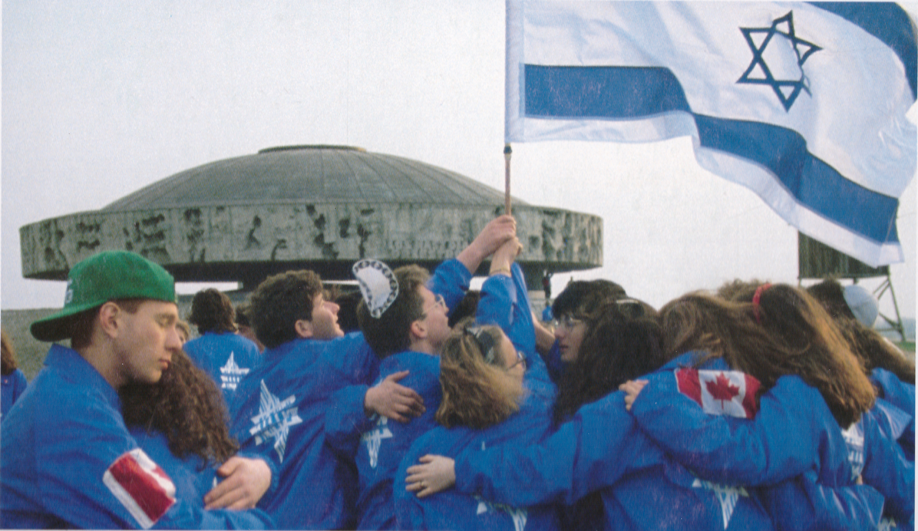 At Majdanek, 1990 March of the Living